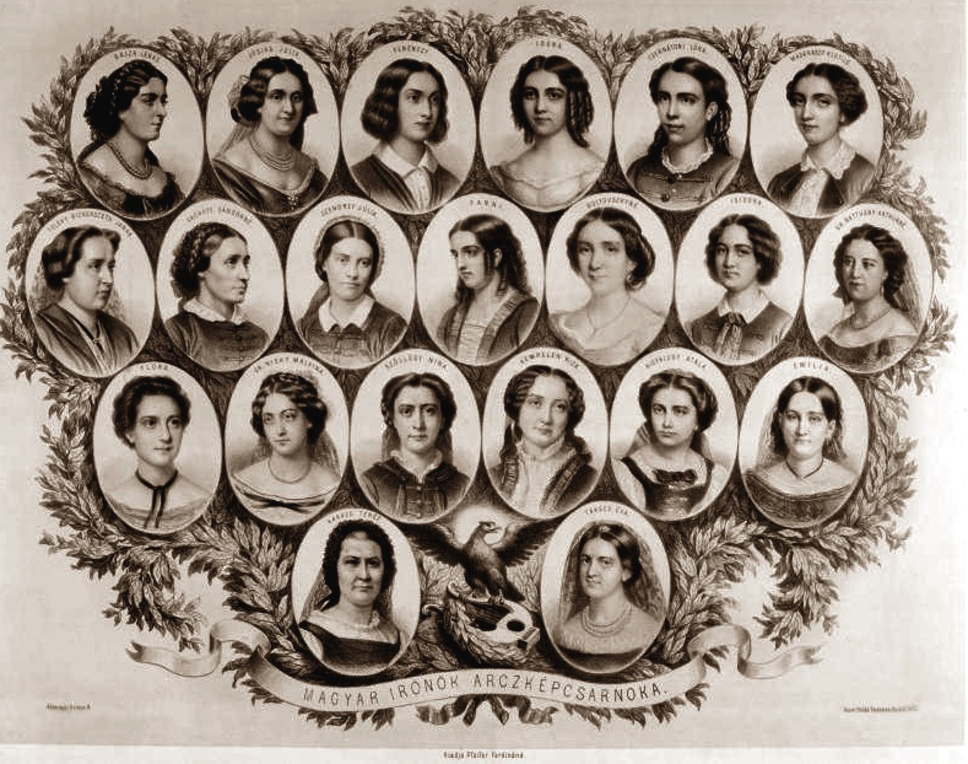 Hungarian female writers' portrait gallery